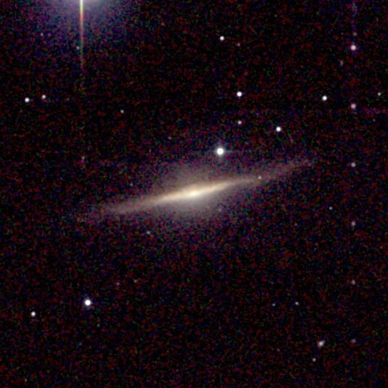 NGC 1055 in infrared wavelength (J-H-Ks composite).